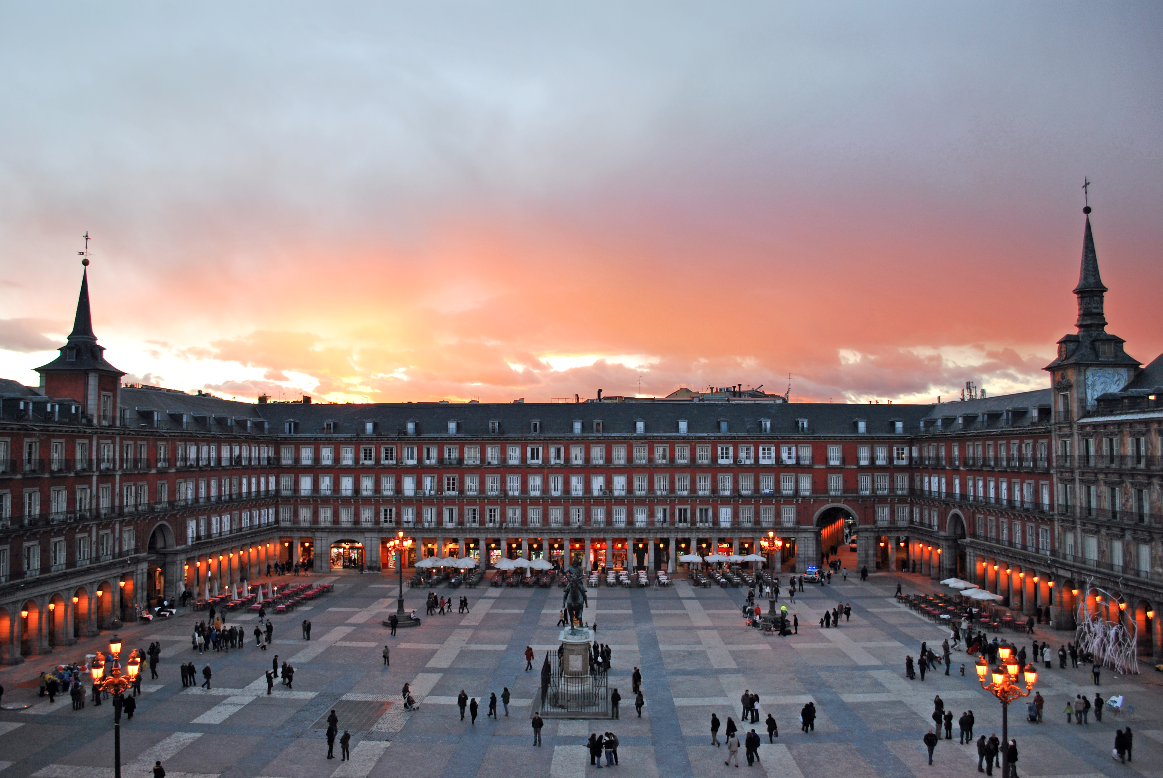 Sunset at Plaza Mayor (square) in Madrid (Spain).